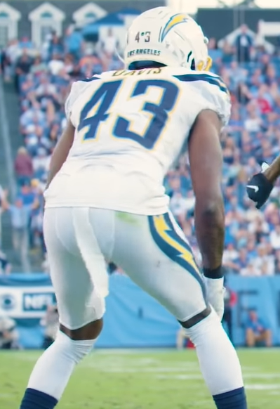 Michael Davis 2019. Image from video Titans Mic'd Up vs. Chargers (Week 7) | Sounds of the Game, ~ 02:37.